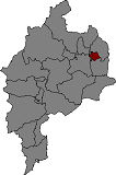 Location of Arsèguel in Alt Urgell